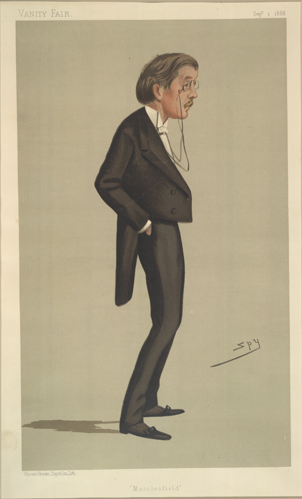 Statesmen No.550: Caricature of Mr William Bromley-Davenport MP. Caption reads: "Macclesfield"